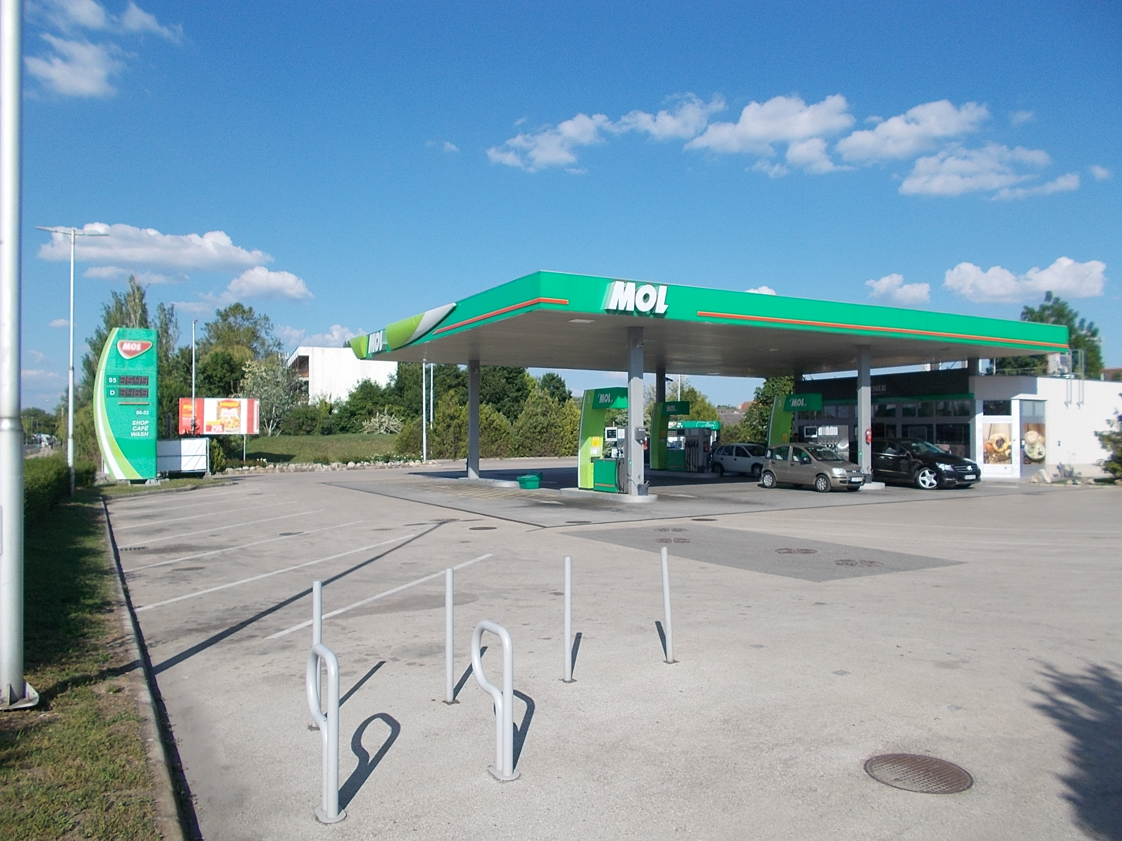 MOL petrol station. - Szabadság út, Gárdony, Fejér County, Hungary.